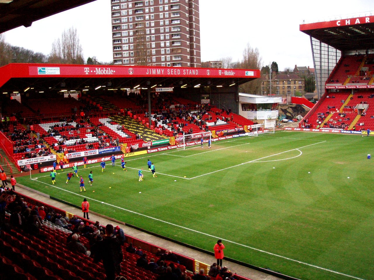 Looking towards the stand where the away supporters (Preston North End) are gathered.